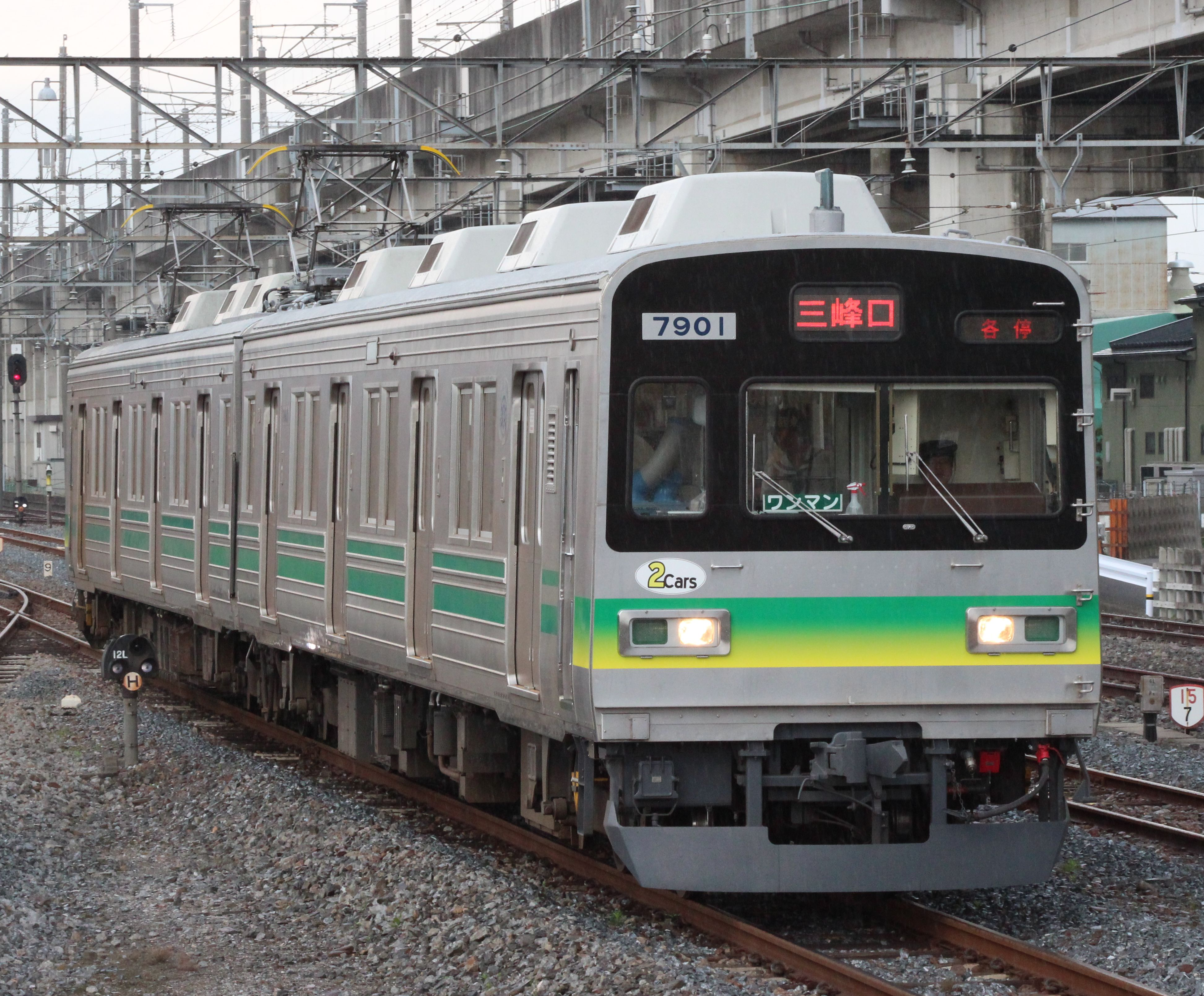 Chichibu Railway 7800 series EMU set 7801 at Ishiwara Station on the Chichibu Main Line